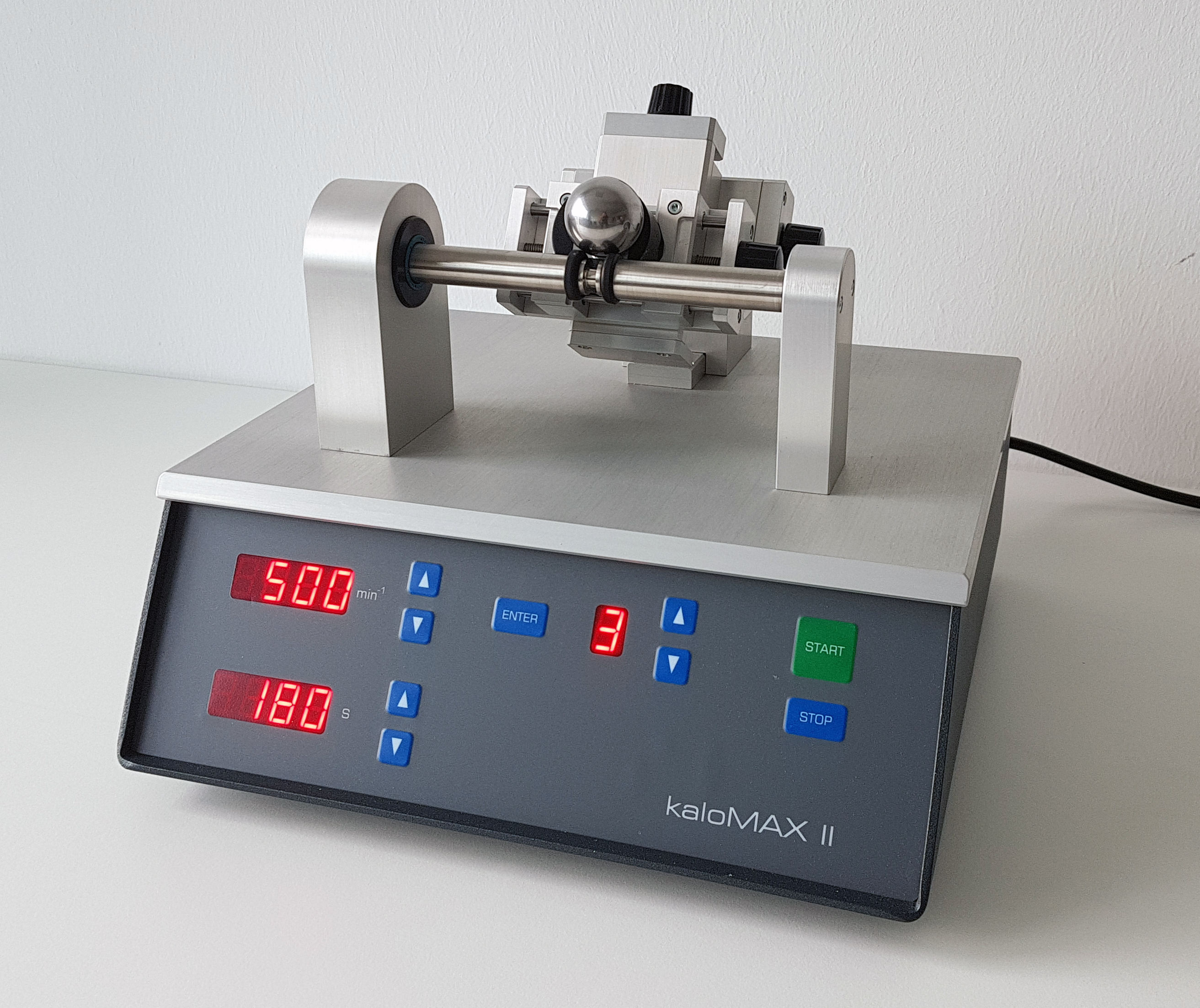 Calo tester to measure the layer thickness of hard coatings